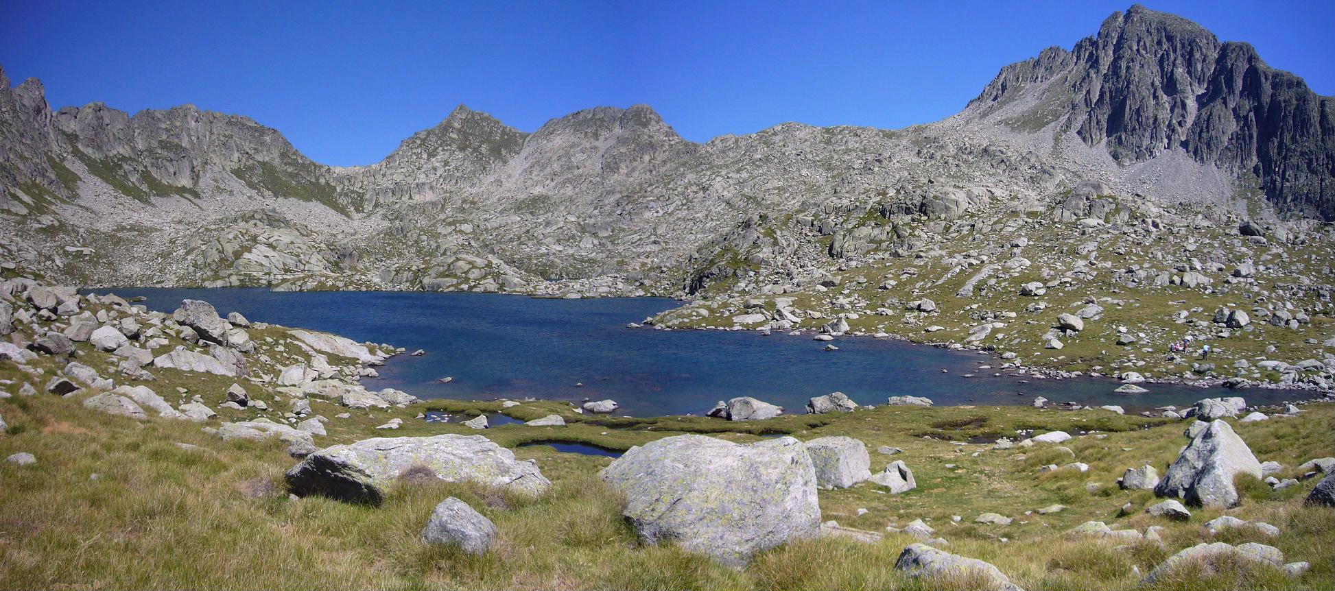 Estany de Mangades, la Vall de Boí, Alta Ribagorça, Catalonia